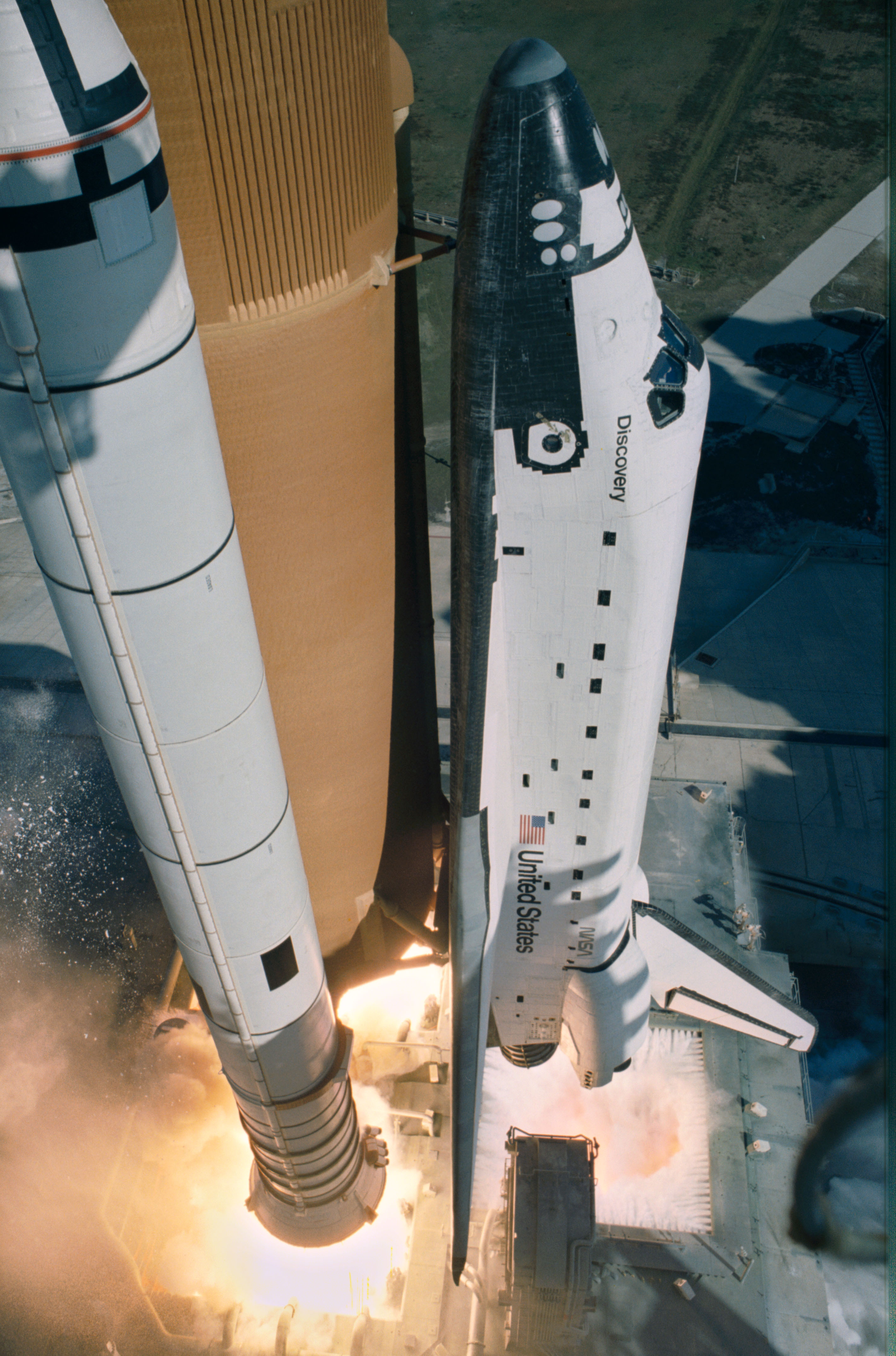 Space Shuttle Discovery launches on STS-51C